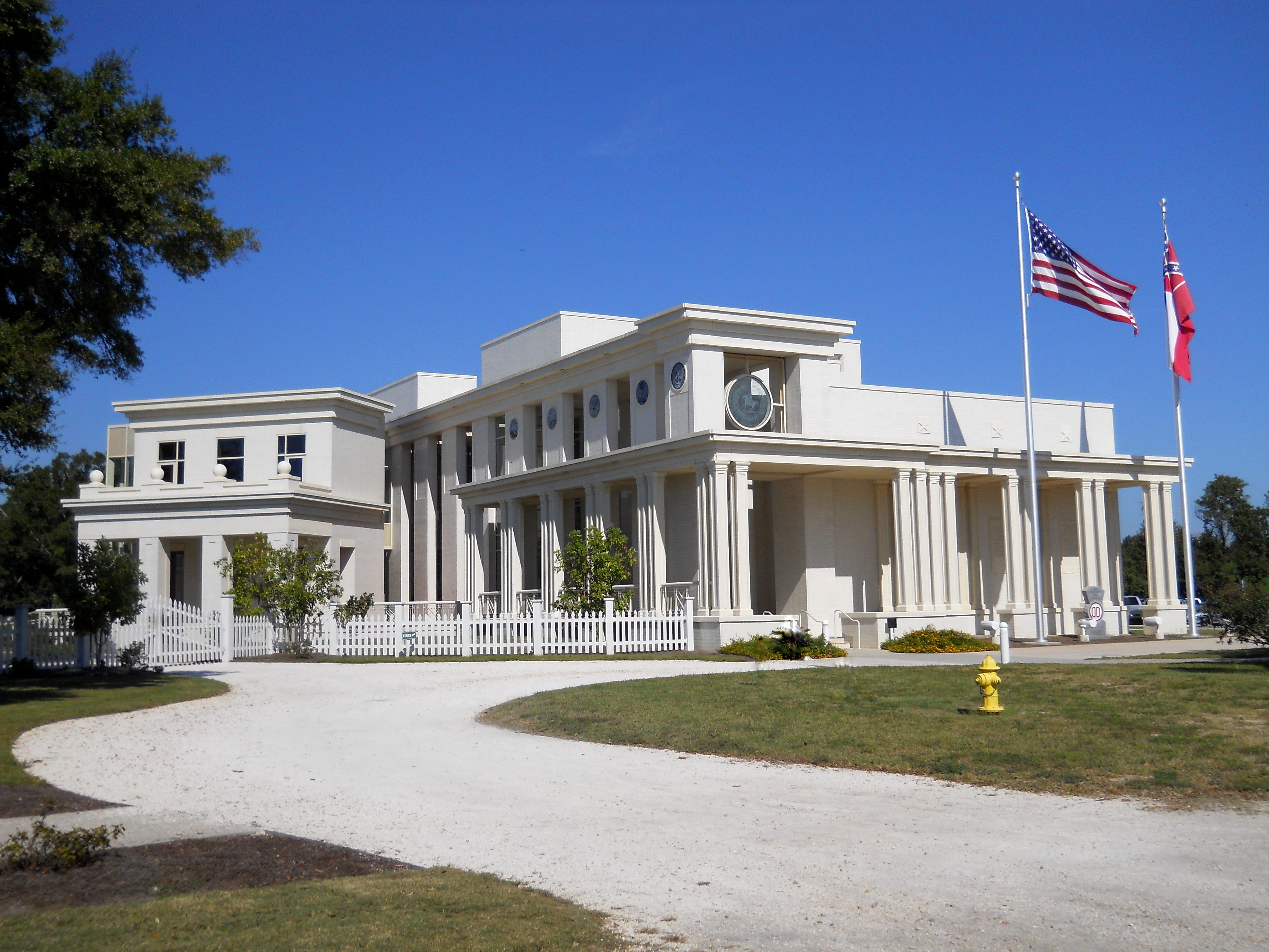 Jefferson Davis Presidential Library and Museum located at Beauvoir in Biloxi, Mississippi, USA